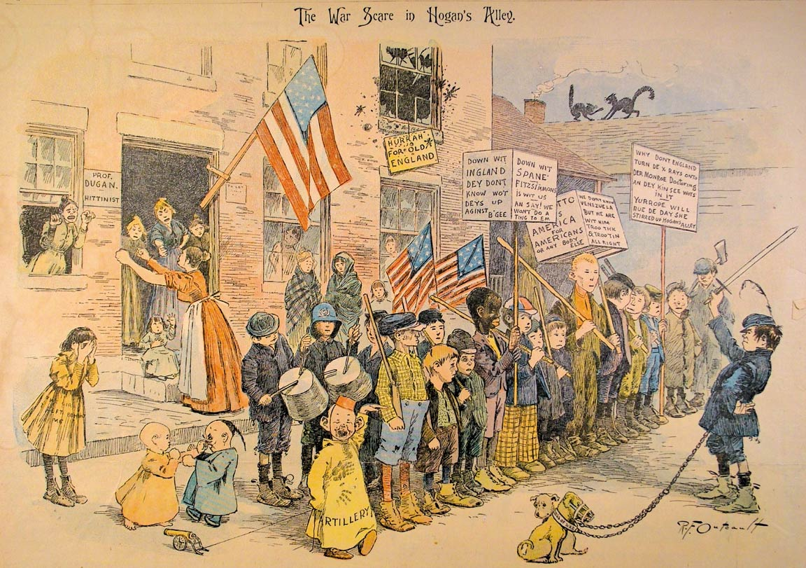 "War Scare in Hogan's Alley". Children drilling under anti-British placards.